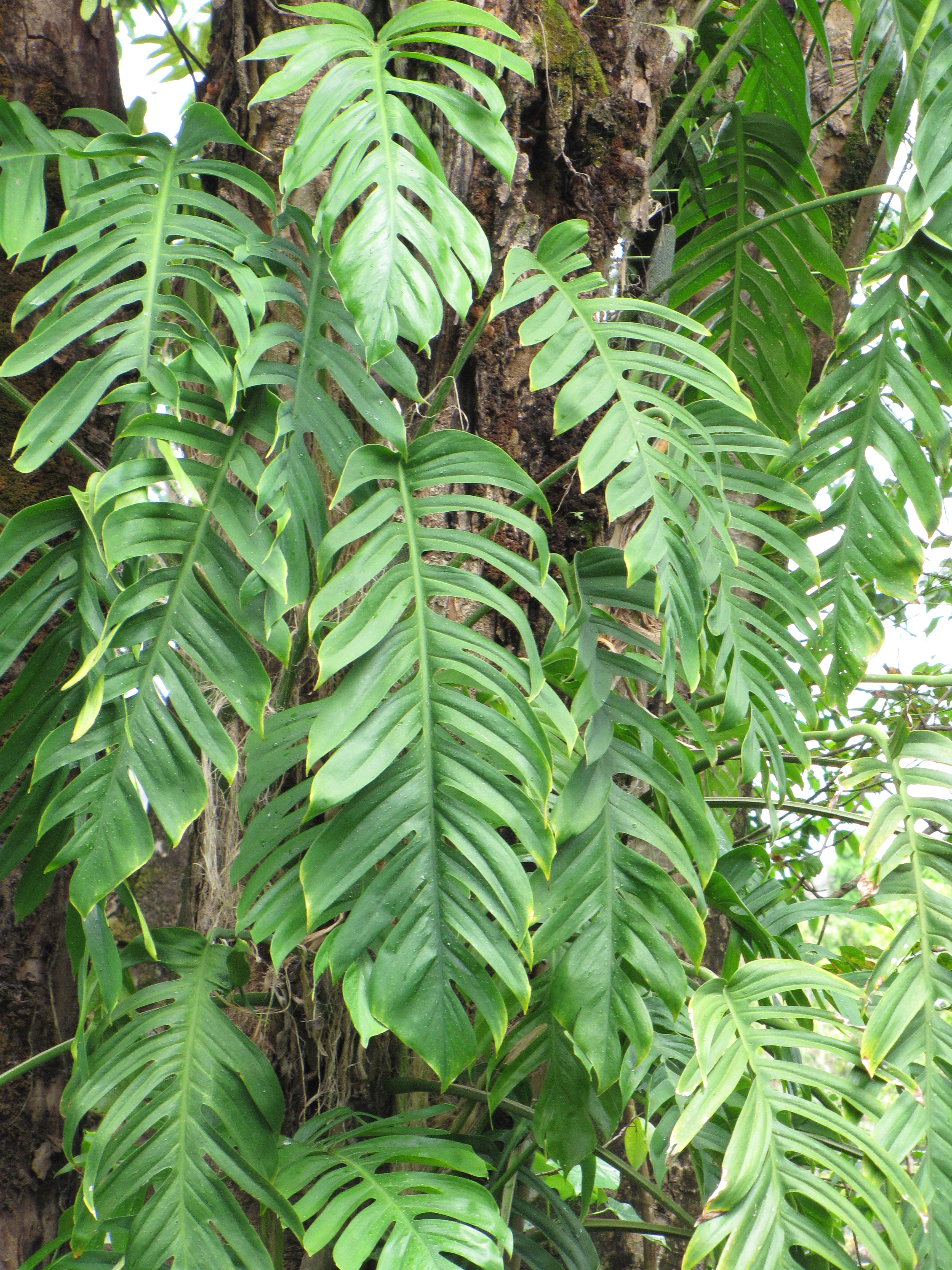 Leaves of an adult Epipremnum pinnatum